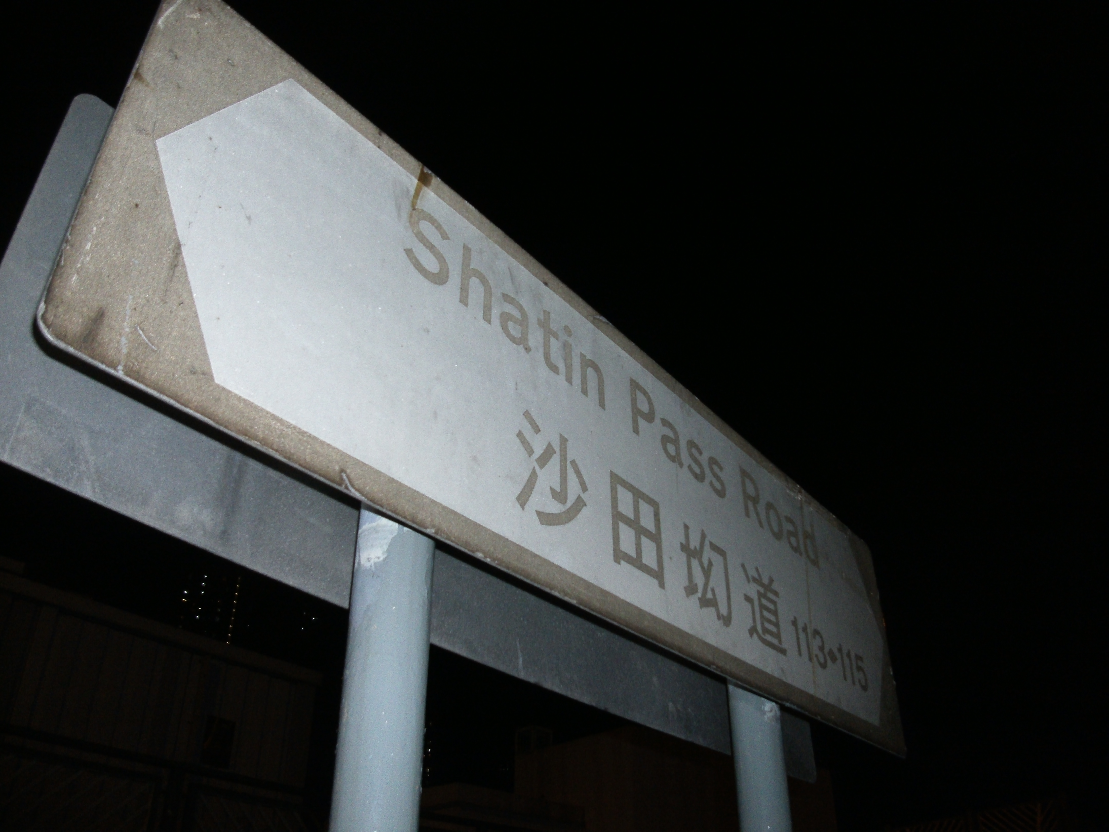 shatin pass road plate